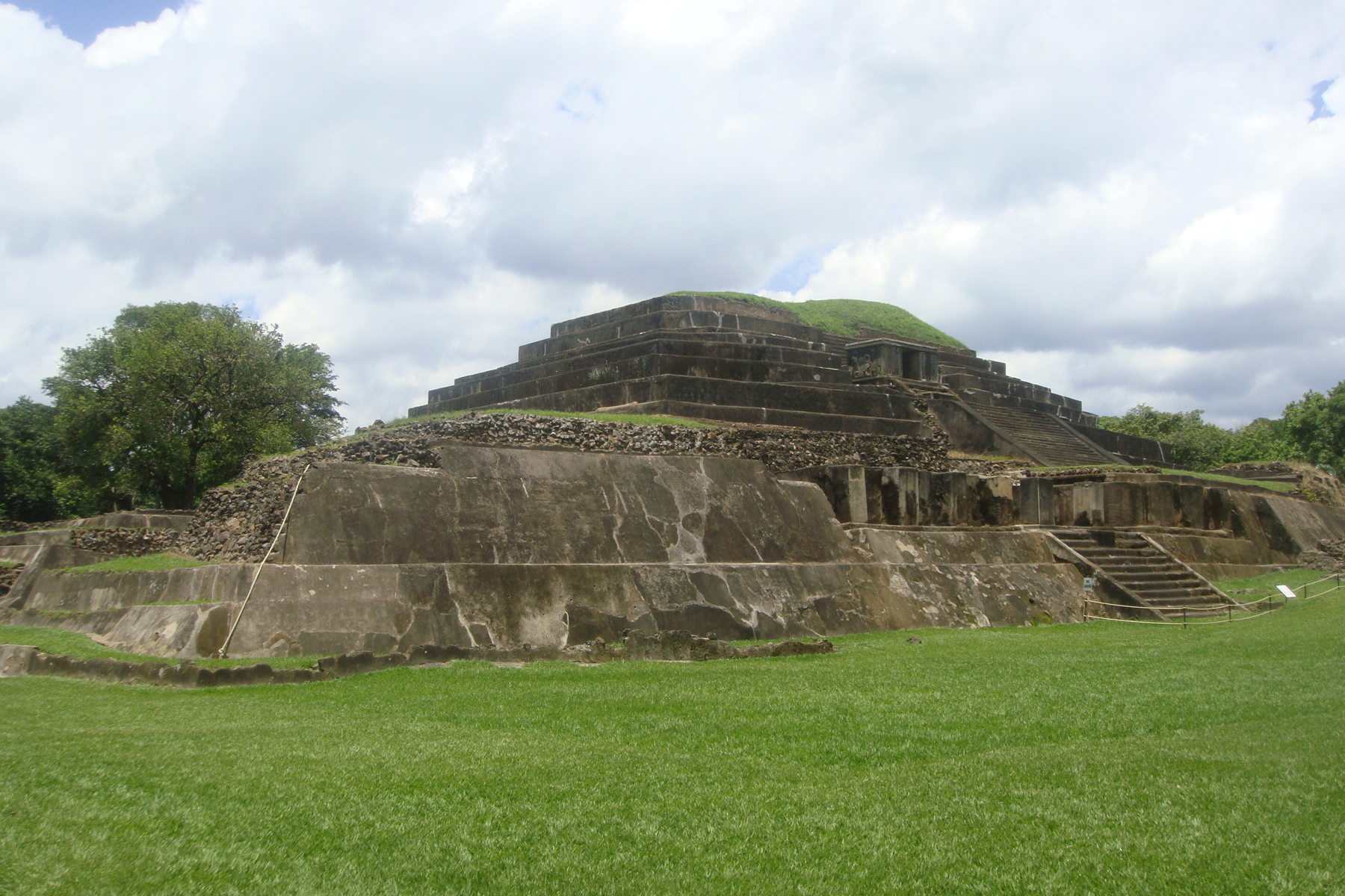 Tazumal main pyramid (structure B1-1), western side and partial northern side. Chalchuapa, El Salvador